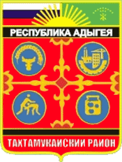 Coat of arms of Takhtamukay Raion, Adygea, Russia